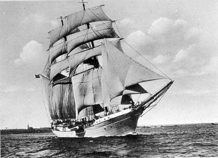 Niobe was a sail training ship from Germany that capsized on 26 July 1932, here rigged as a three-masted jackass-barque (originally four-masted schooner).